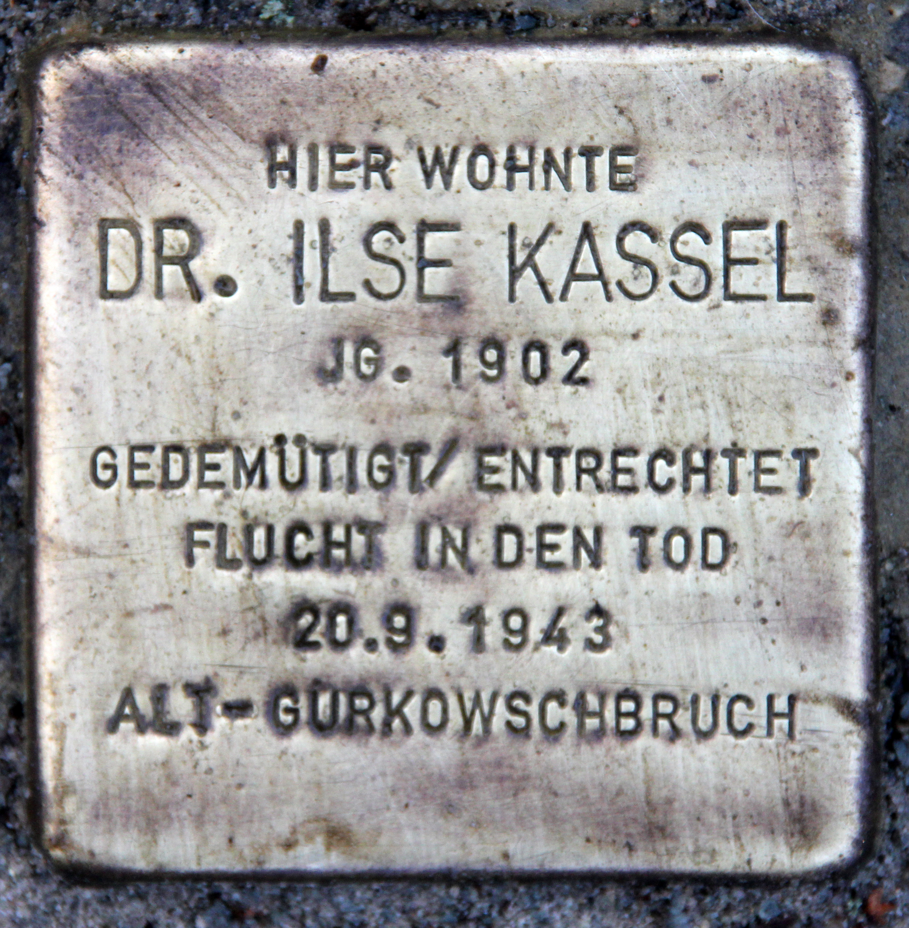 "Stolperstein" (stumbling block), Ilse Kassel, Wachsmuthstraße 9, Berlin-Hermsdorf, Germany